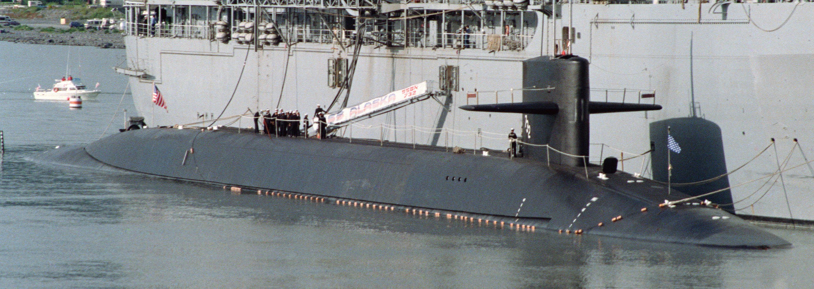 A starboard bow view of the nuclear-powered strategic missile submarine USS ALASKA (SSBN 732) and the submarine tender USS MCKEE (AS 41) docked at their honorary homeport for Independence Day.